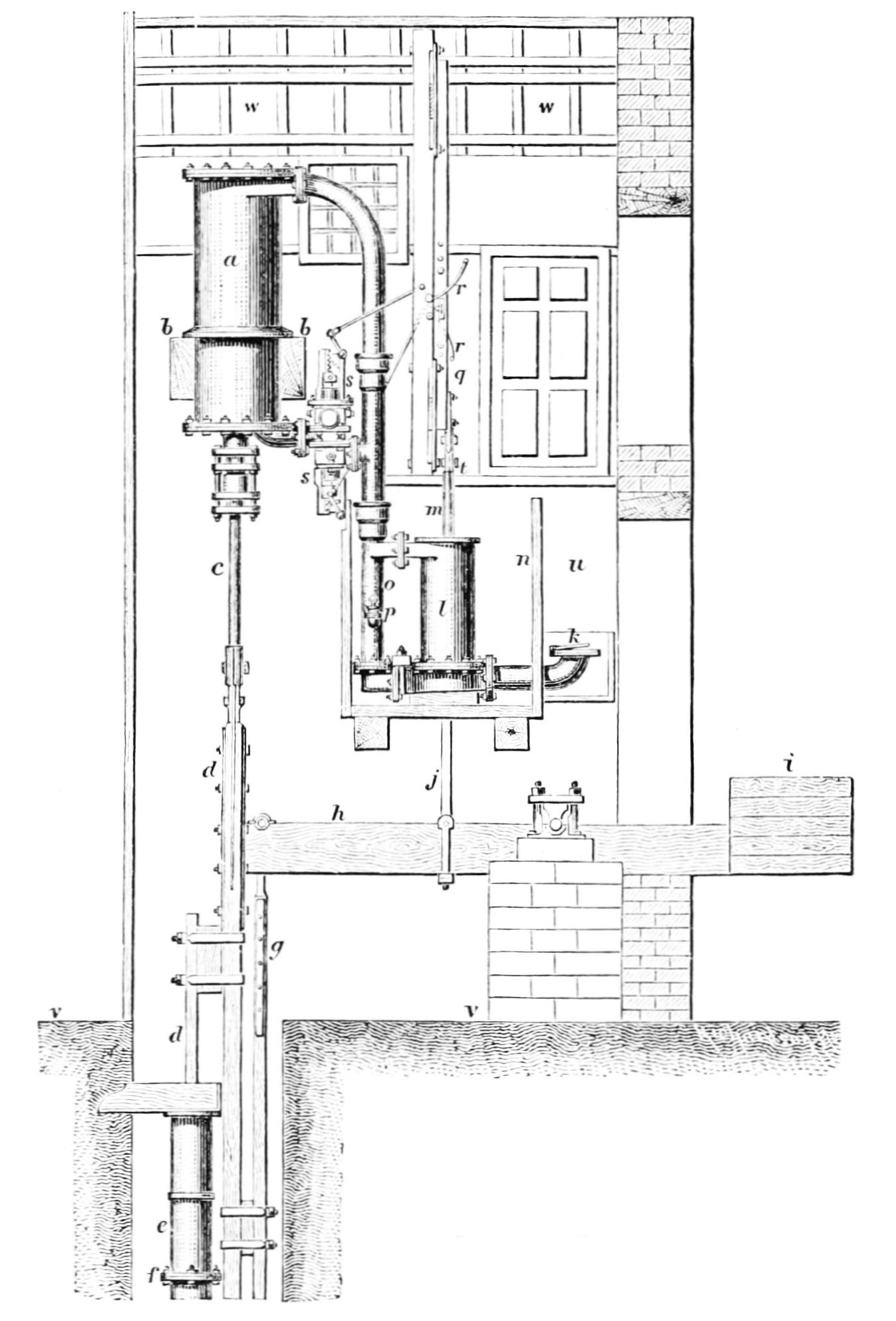 Bull's Cornish engine 1798